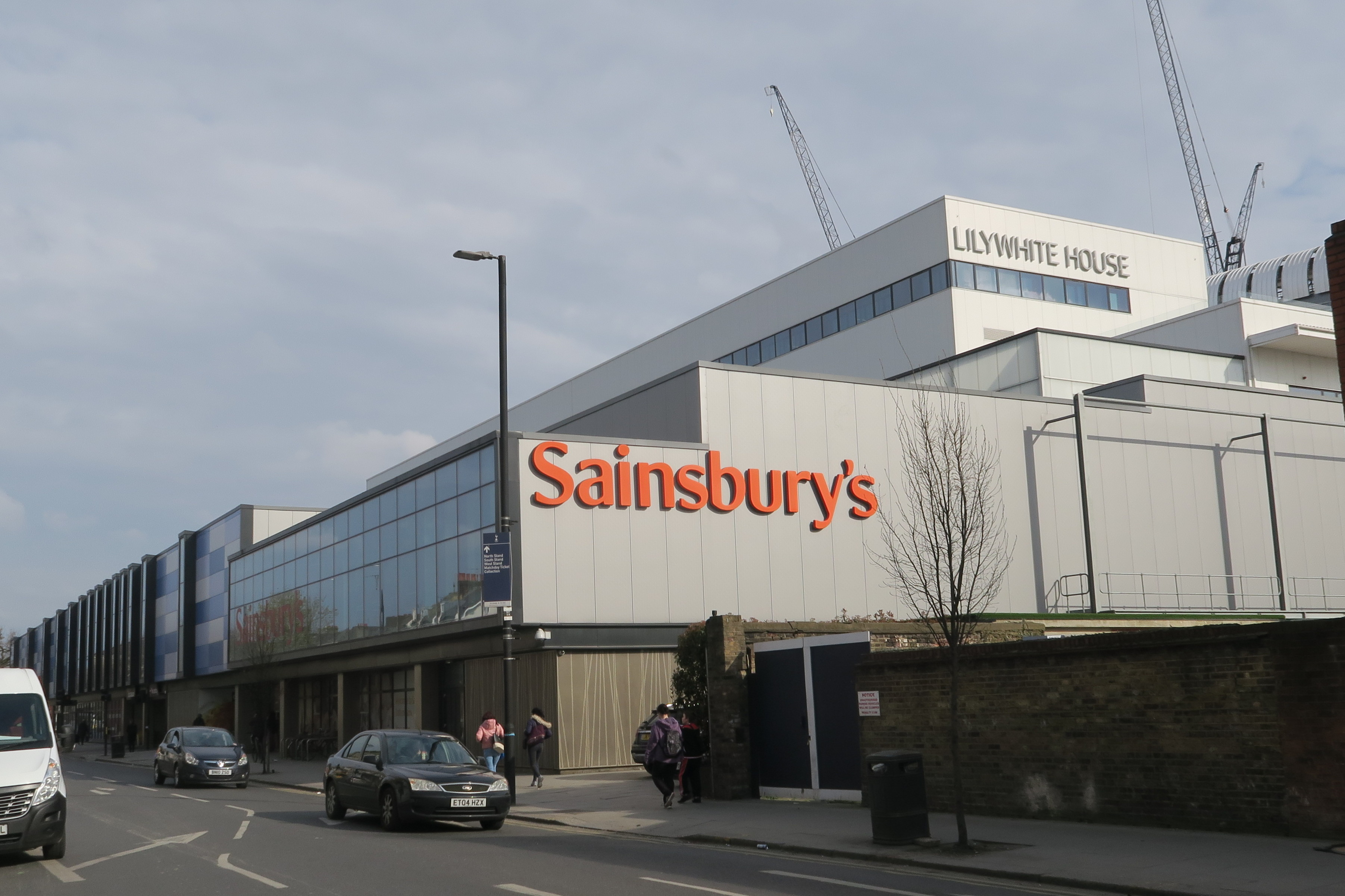 Northumberland Development Project - Lilywhite House with Sainbury's on Northumberland Park